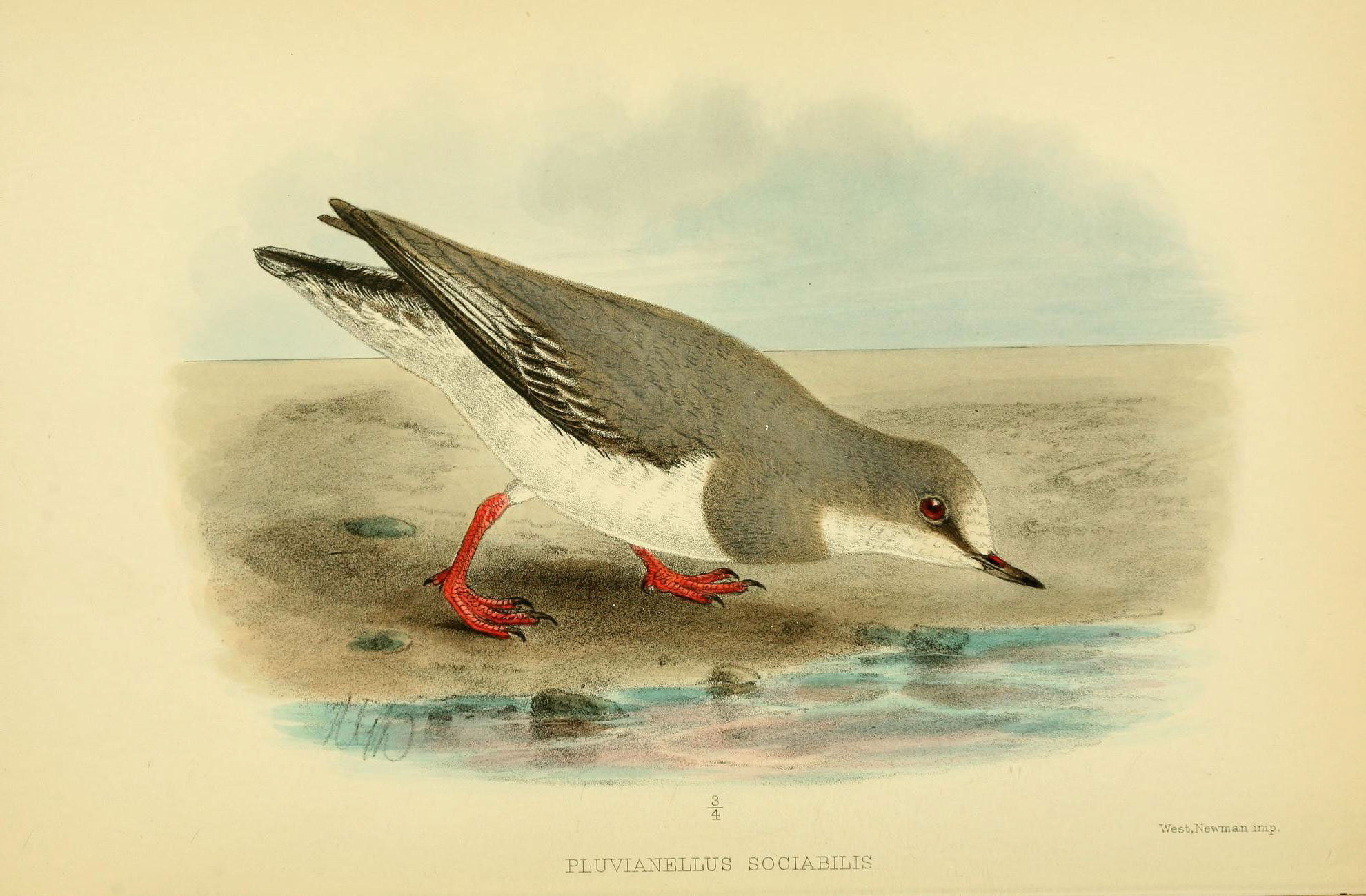 The birds of Tierra del Fuego London :B. Quaritch,1907.